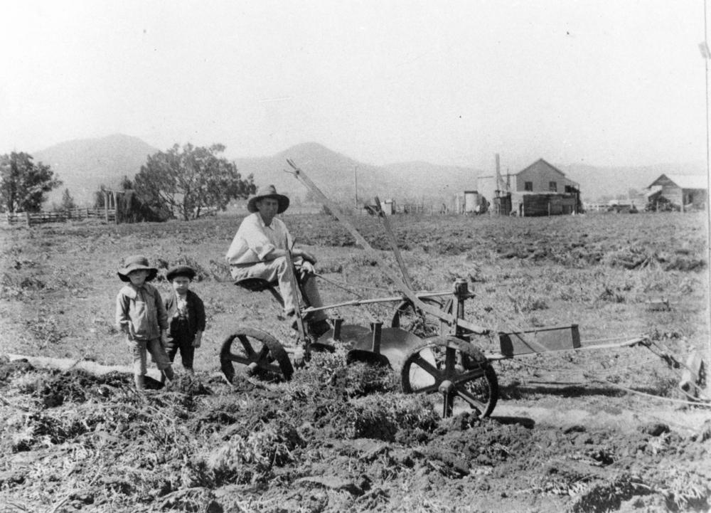 Farmer and his two children in the fields in the Lockyer, 1907 Man sitting on a horsedrawn two disc plough. (Descirption supplied with photograph.).